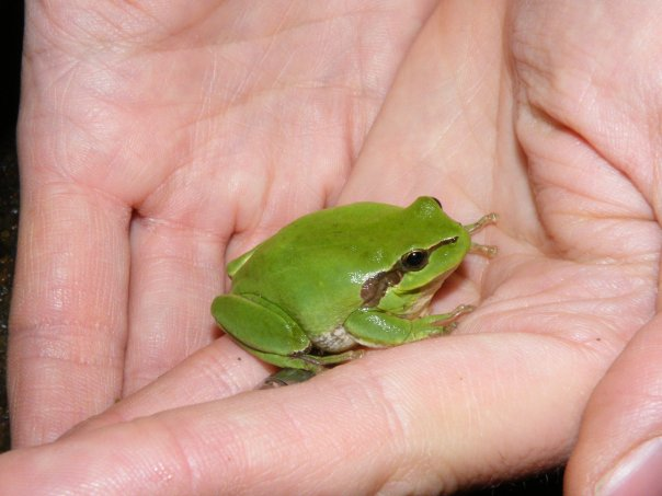 rainette méridionale à Soumont